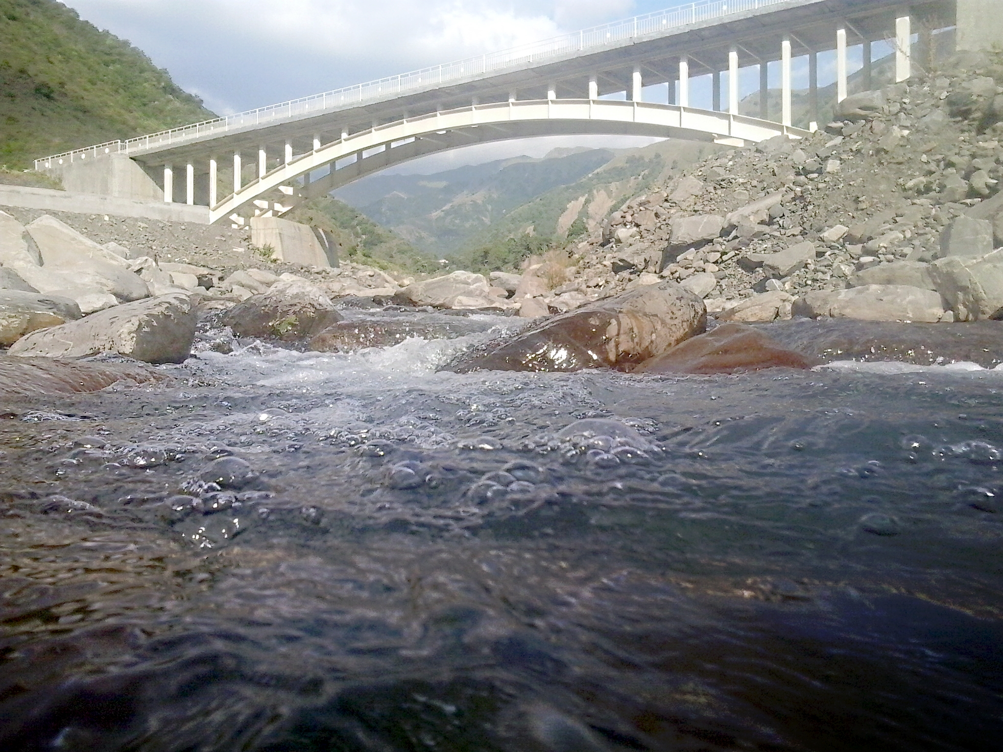 Ilisu State Reserve.Hamamçay üzərində ki, müasir körpü 7